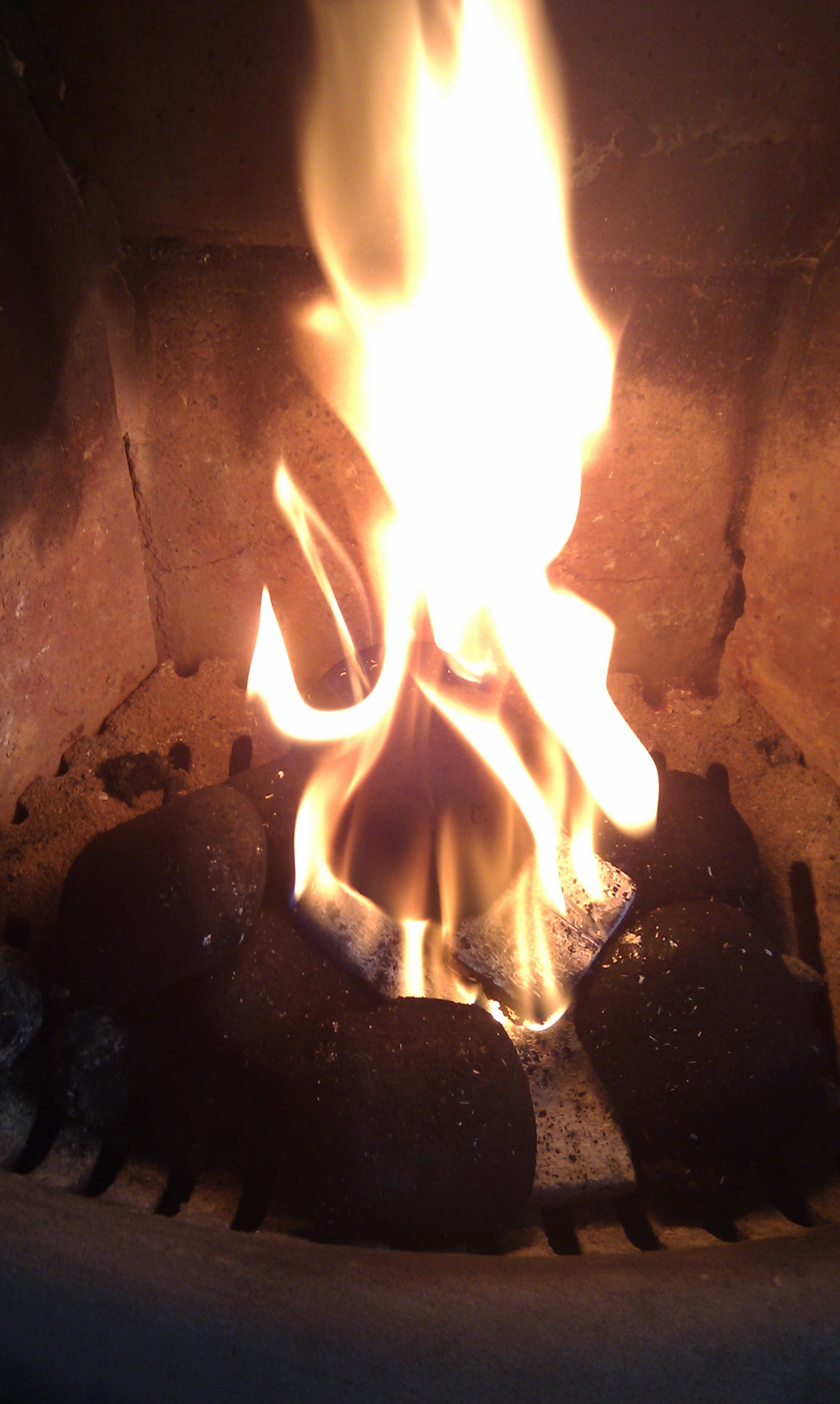 A photograph of a domestic coal fire lighting, with fire lighters.